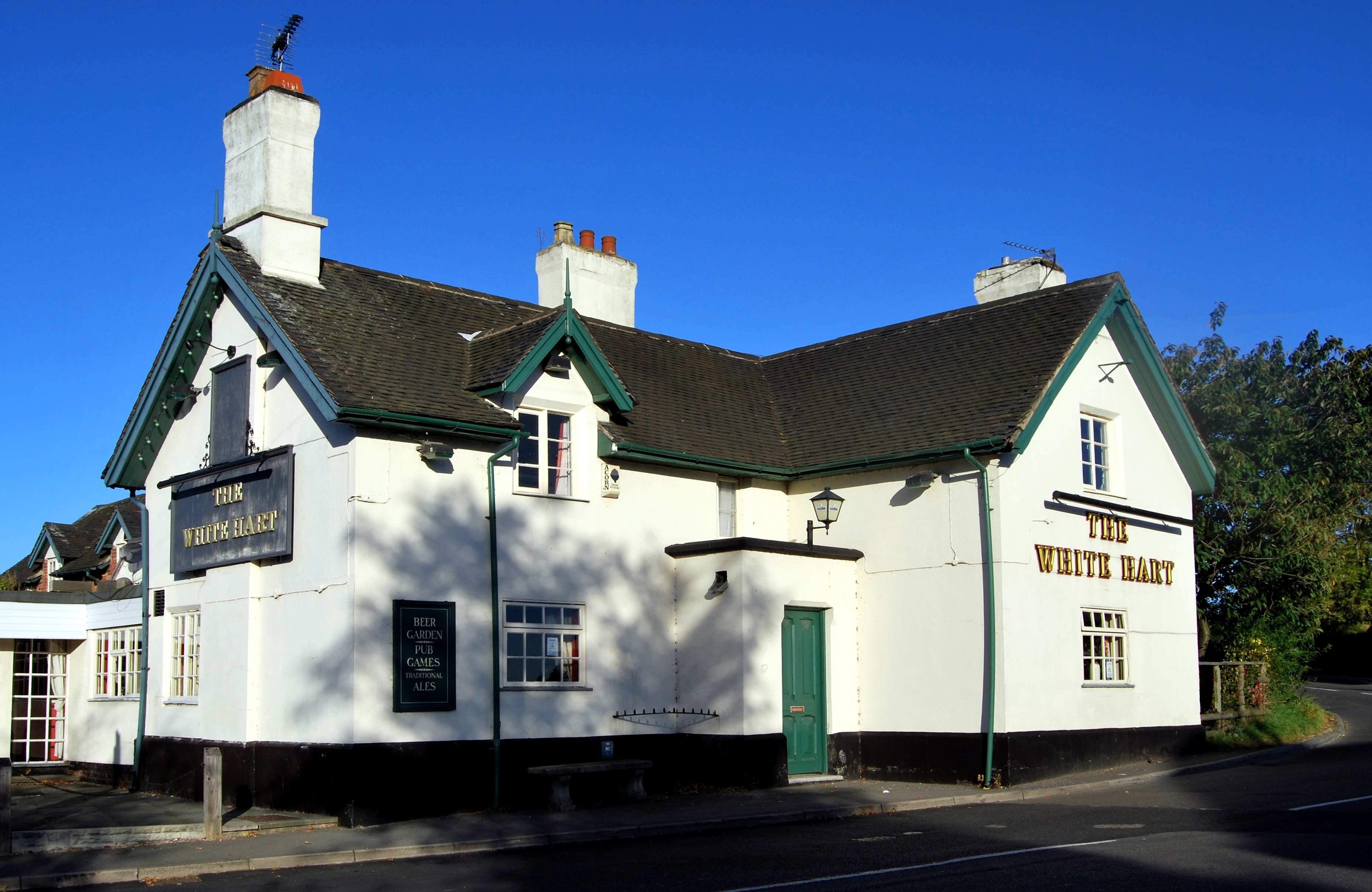 The White Hart West Hallam Derbyshire